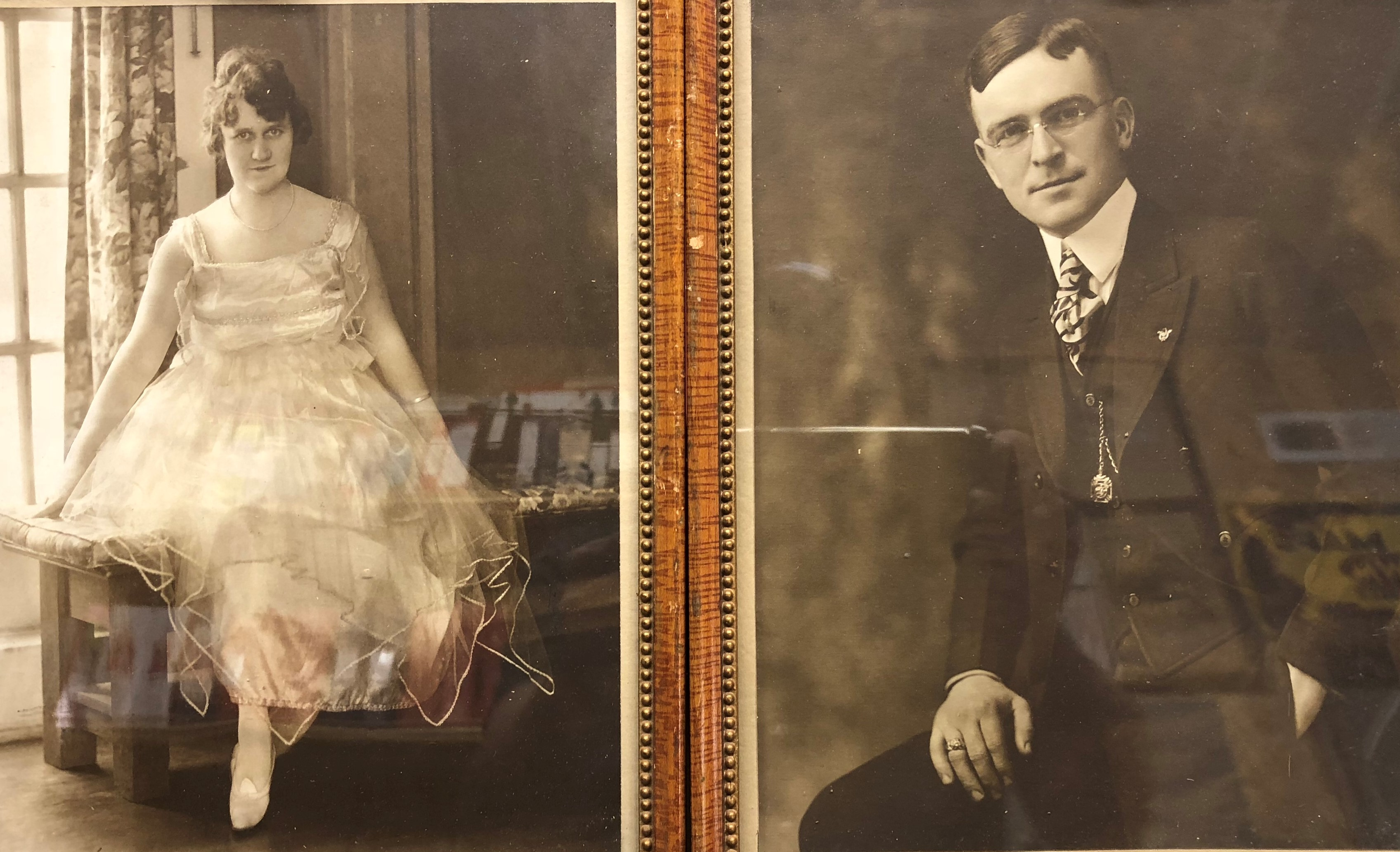 1907 portrait of Mary Kate Miller Coleman and Lewis Shaw Coleman, builders of the house at 227 E College St, Aurora, MO.